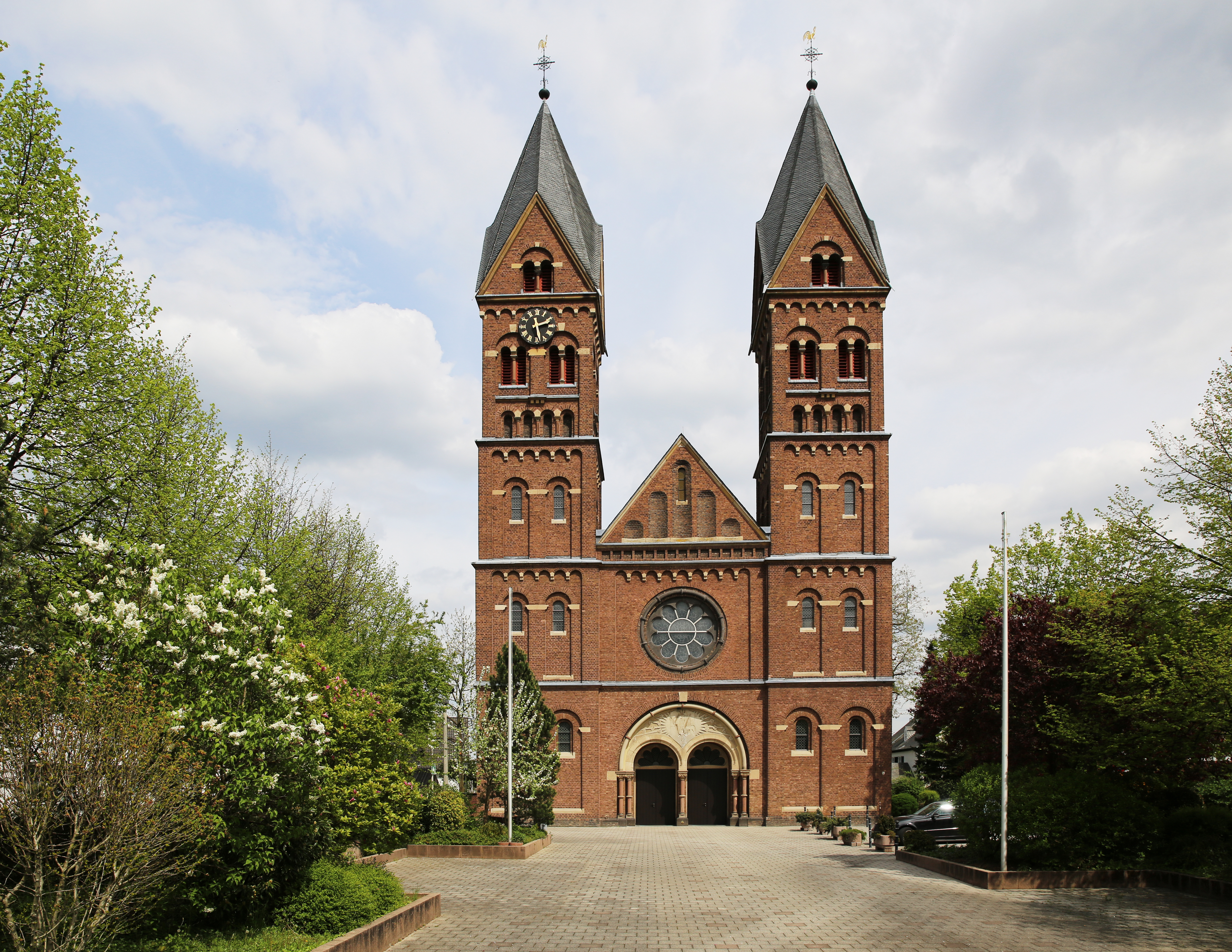 Catholic church of St Germanus in Wesseling